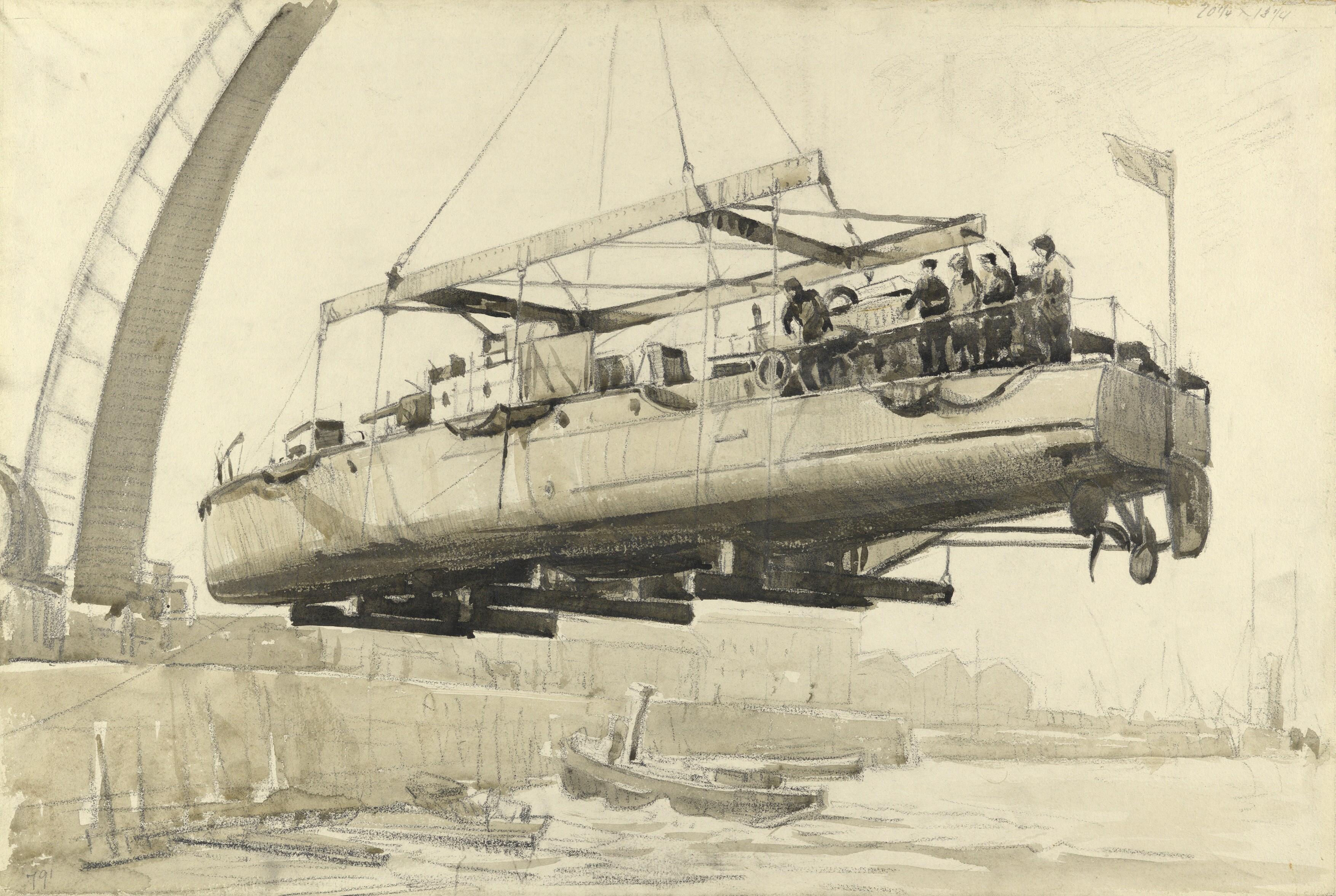 Hoisting a Motor Launch image: a motor launch hoisted above a dock by a curved crane seen in the left background. Five figures stand at the stern on the launch, leaning on the boat's railing and looking down at the water below. Dock buildings can be seen in the background.